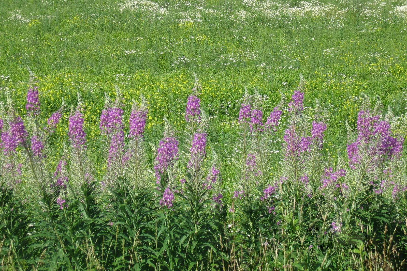 Epilobium angustifolium